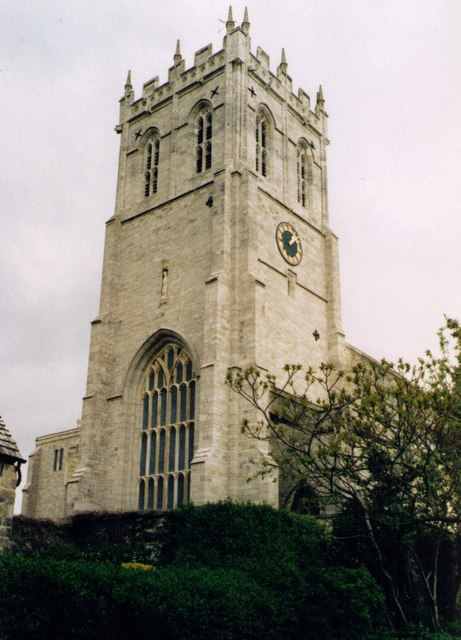 Holy Trinity Priory, Christchurch Grade 1 listed building erected in the 11th century.